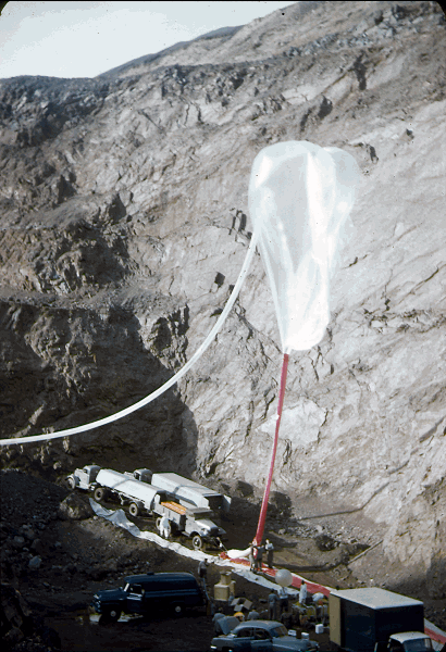 Inflating Winzen Research balloon for 1958 balloon ascent to the stratosphere by Malcolm D Ross and Alfred H Mikesell.